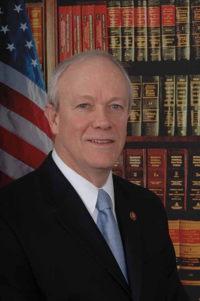 Jerry McNerney, U.S. Congressman.